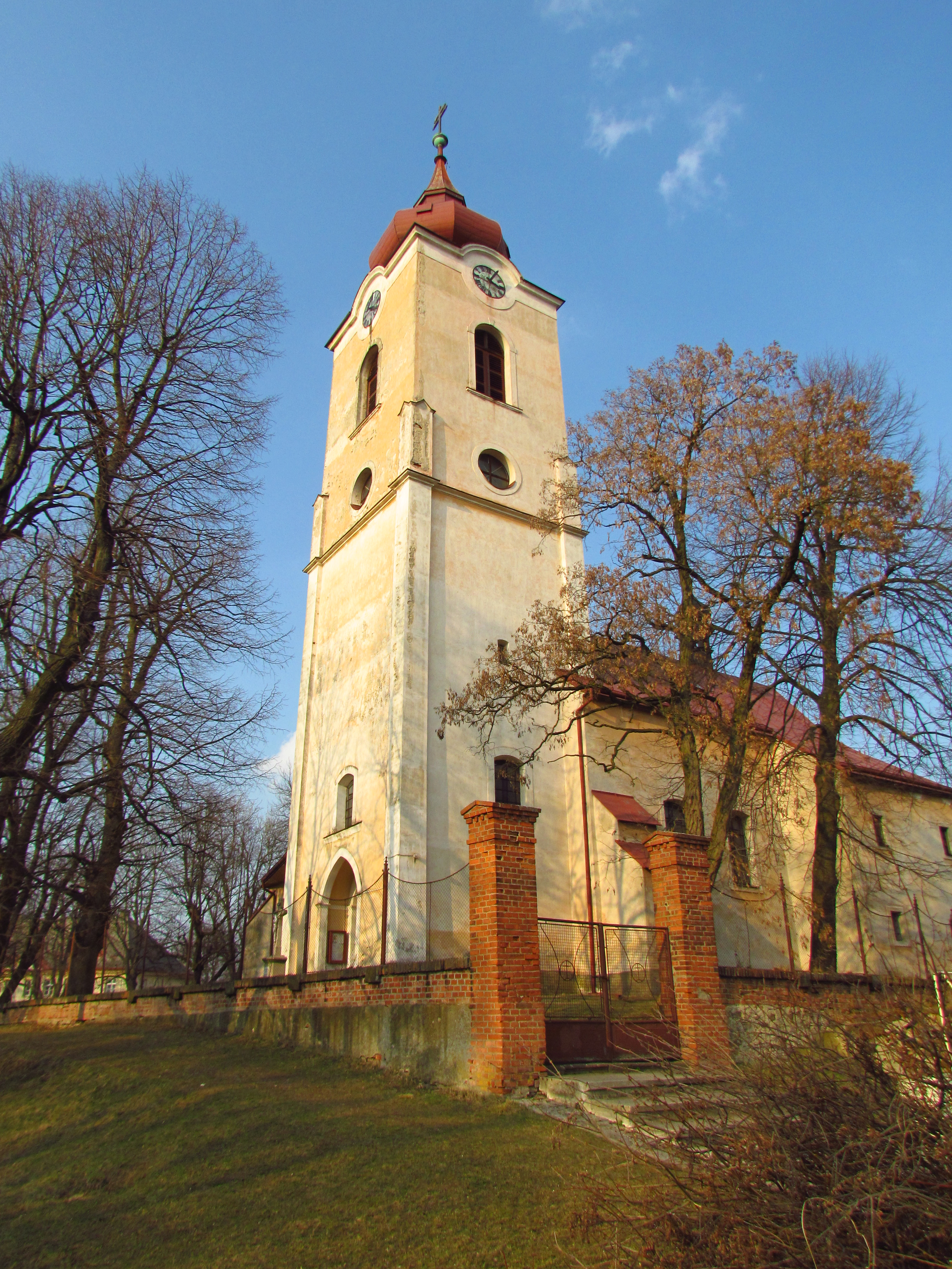 Overview of Church of Saint Giles in Heraltice, Třebíč District.